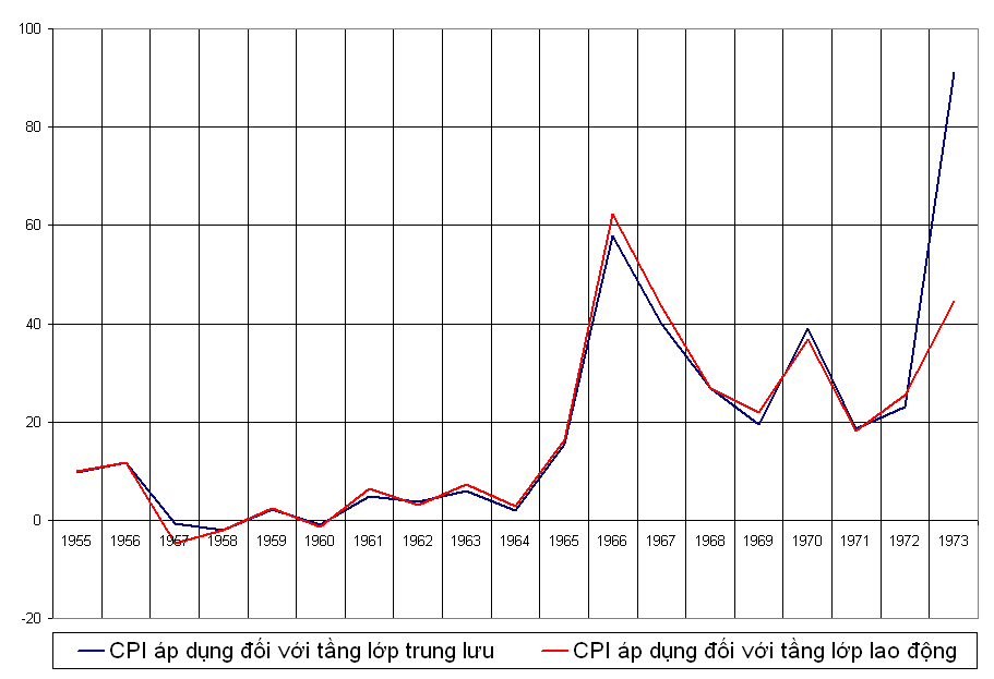 Inflation (CPI in Sai Gon) in South Vietnam during 1955 and 1973